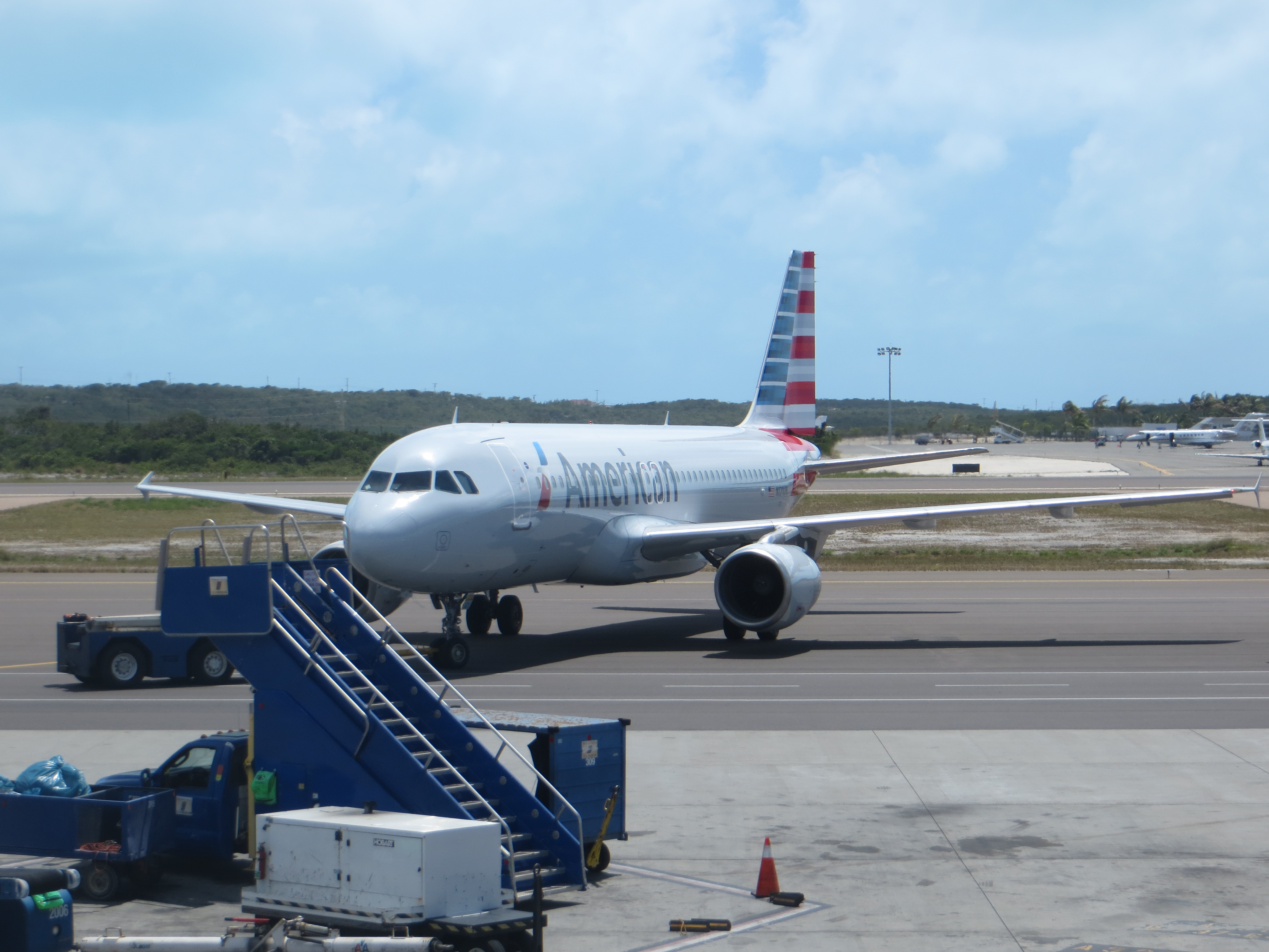 An American Airlines A320, N121UW, at Providenciales Airport. Bound for Charlotte as AA1687